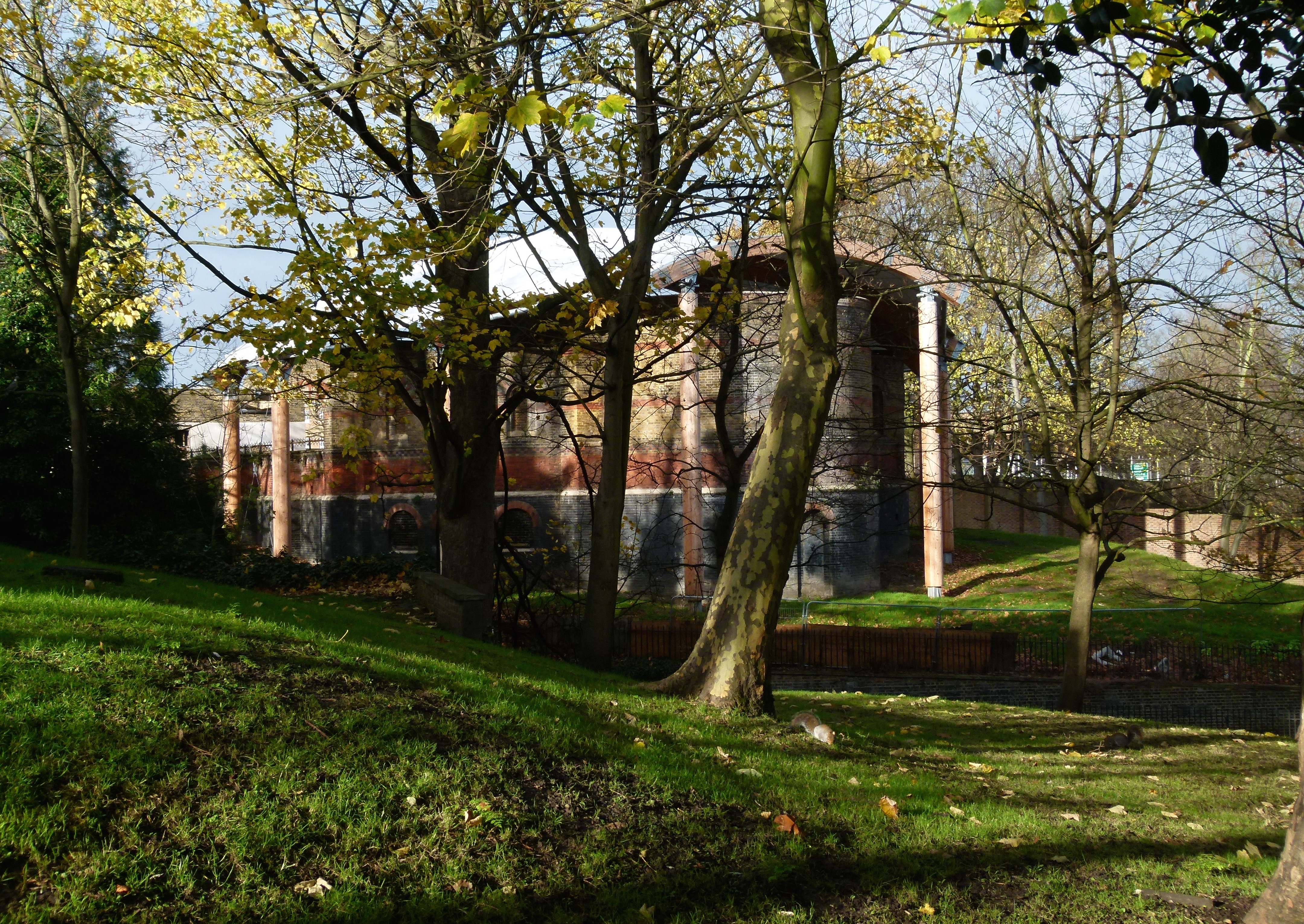 View from Mill Lane of the Royal Garrison Church of St George's in Woolwich, South East London.